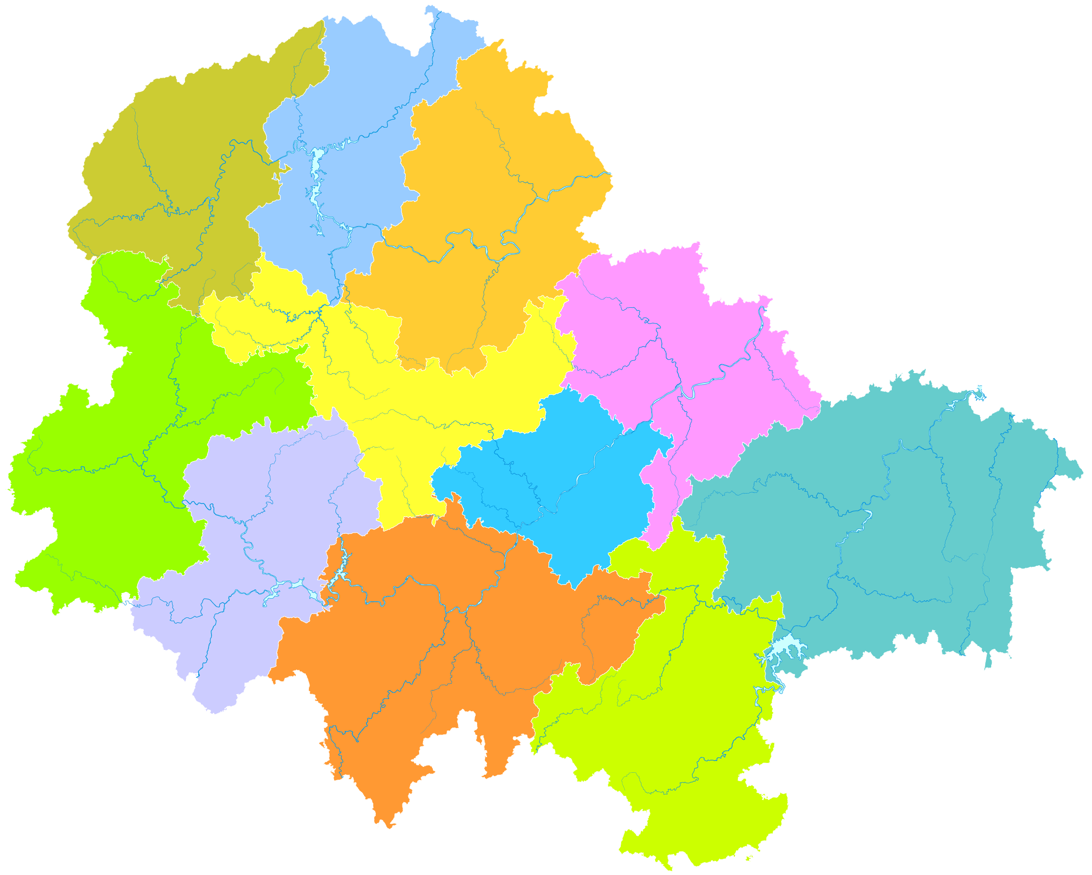 administrative division of Sanming City, Fujian, China